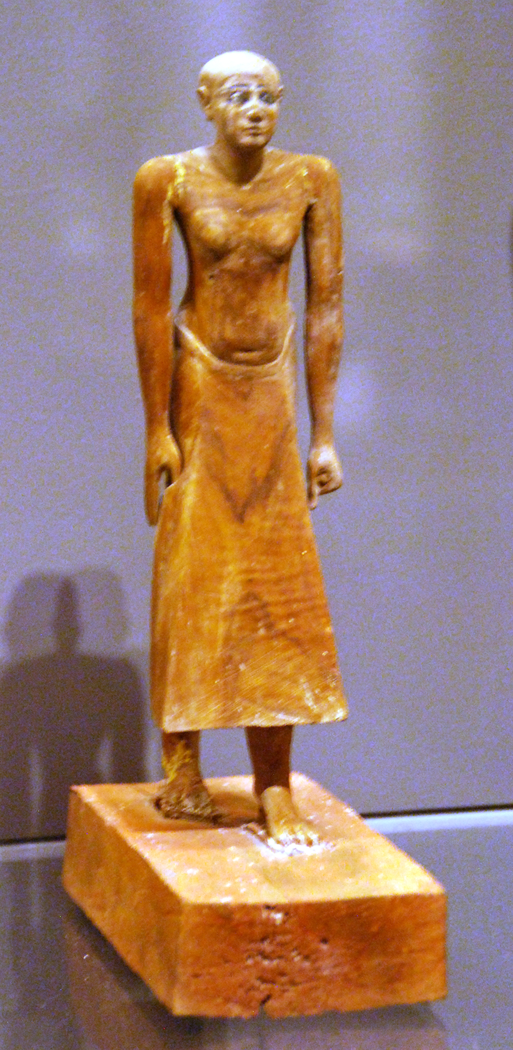 Wooden Statuette of Nakht; Egyptian, Middle Kingdom, late Dynasty 11 or early Dynasty, 2040–1878 B.C.; found at Asyut, Egypt; Height: 29 cm (11 7/16 in.); today at the "Stanford and Norma Jean Calderwood Gallery" of the Museum of Fine Arts at Boston, Accession Number 04.1775; more Informations.